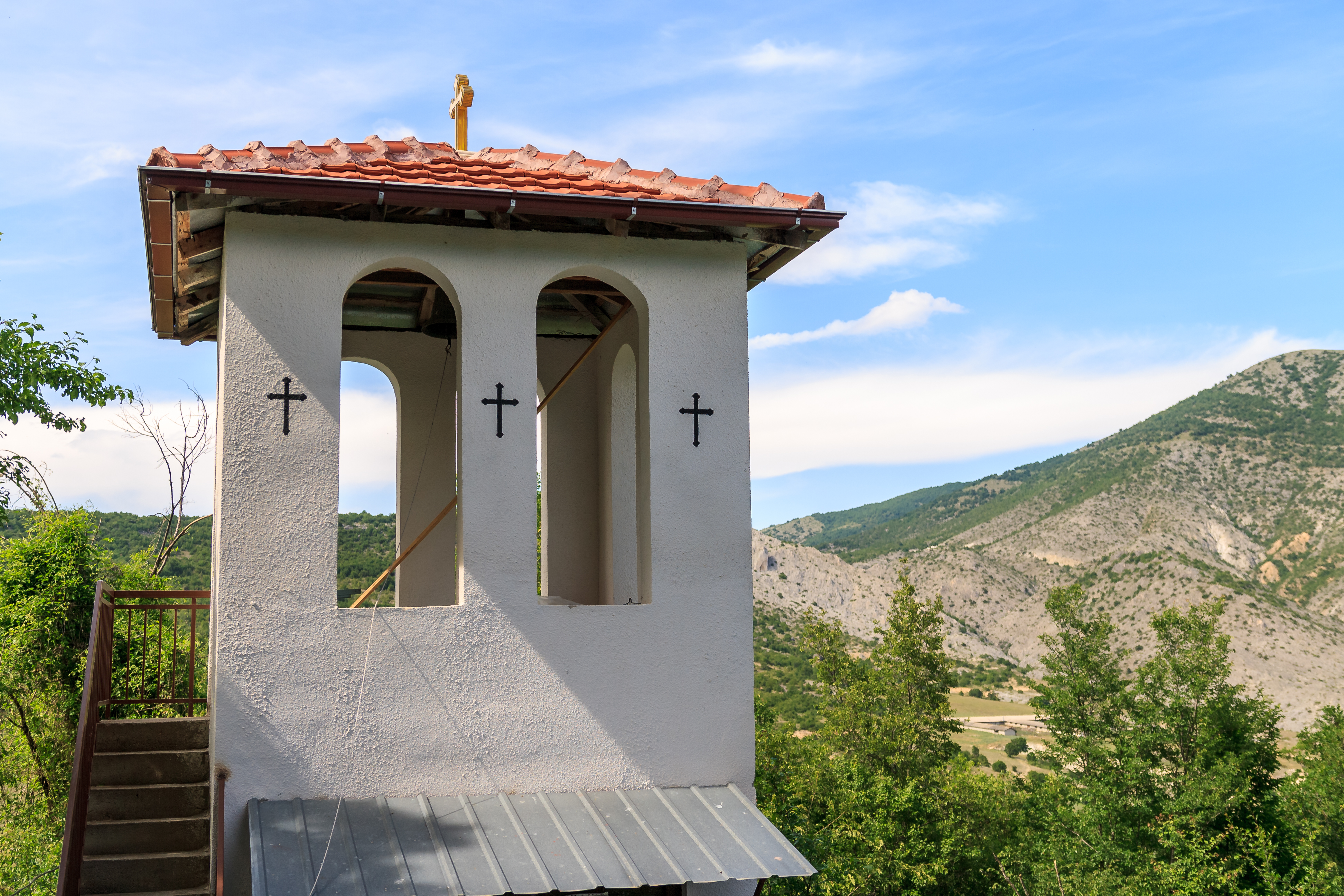 Part of the Vitolište Monastery